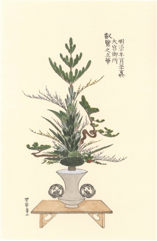 Coloured diagram #1 of rikka and shōka works by the 42nd headmaster Ikenobō Senshō, from the Senshō Risshokashu. This arrangement was presented in the Ōmiya Palace.